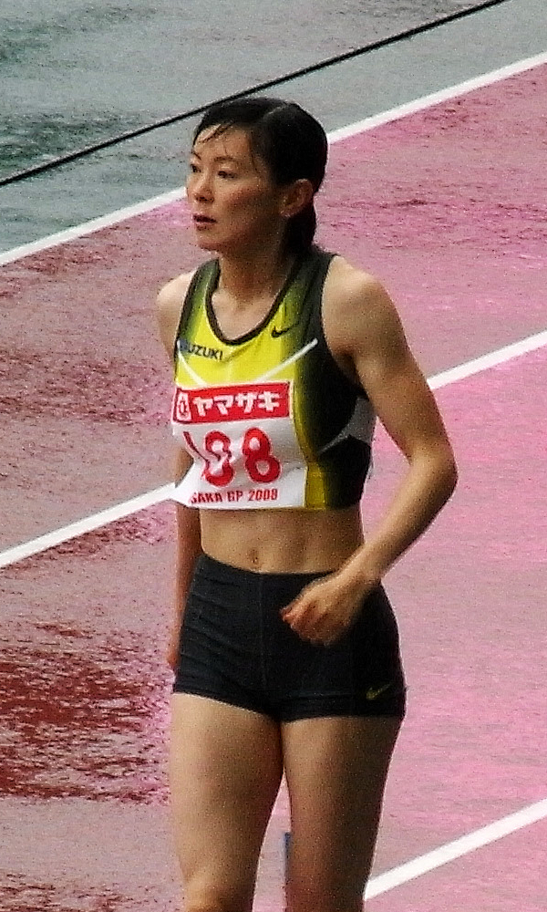 Kumiko Ikeda is a Japanese athlete.